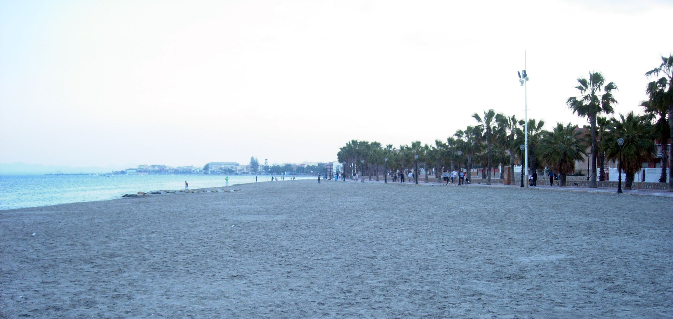 Las Palmeras beach in Los Alacázares, Region of Murcia